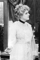 Allan Forrest, Jewel Carmen, Genevieve Blinn (center), William Farnum & Florence Vidor (right) in American Methods - publicity still